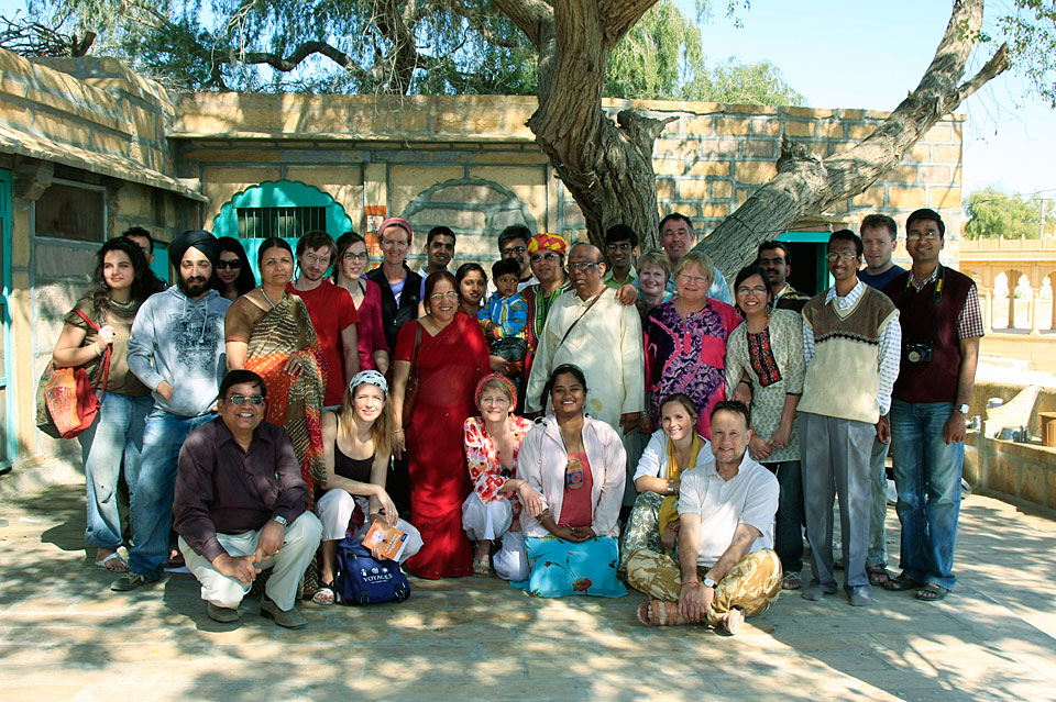 Couch Surfing meet jaisalmer